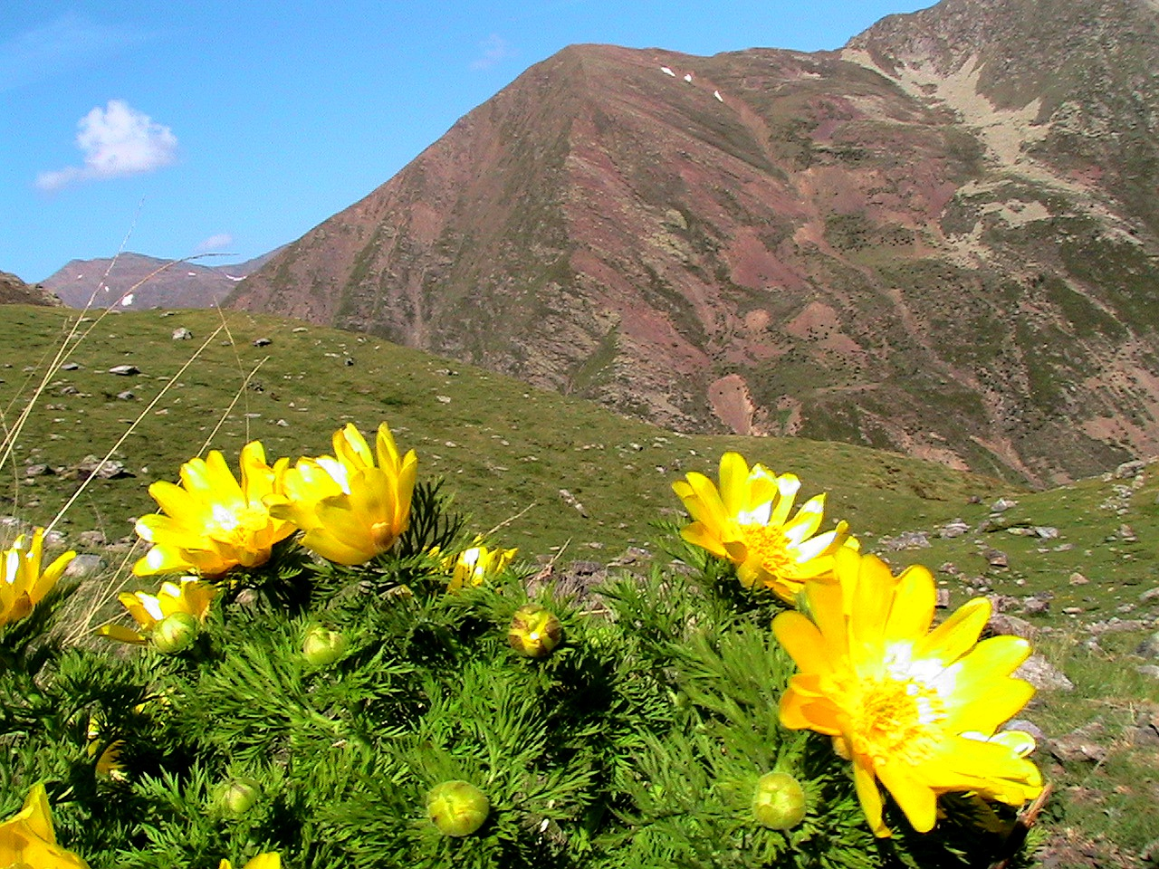 Adonis pyrenaica. In Cabdella (Pallars Jussà - Catalunya), at 2,110 m altitude